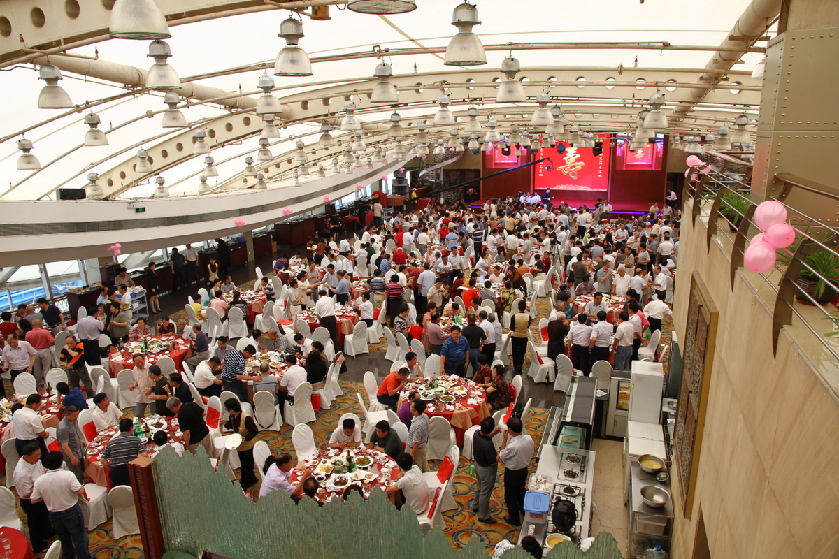 A typical Chinese style banquet in a banquet hall. This particular occasion is an elderly person's birthday which is evident by the word meaning "longevity" in the center of the stage.